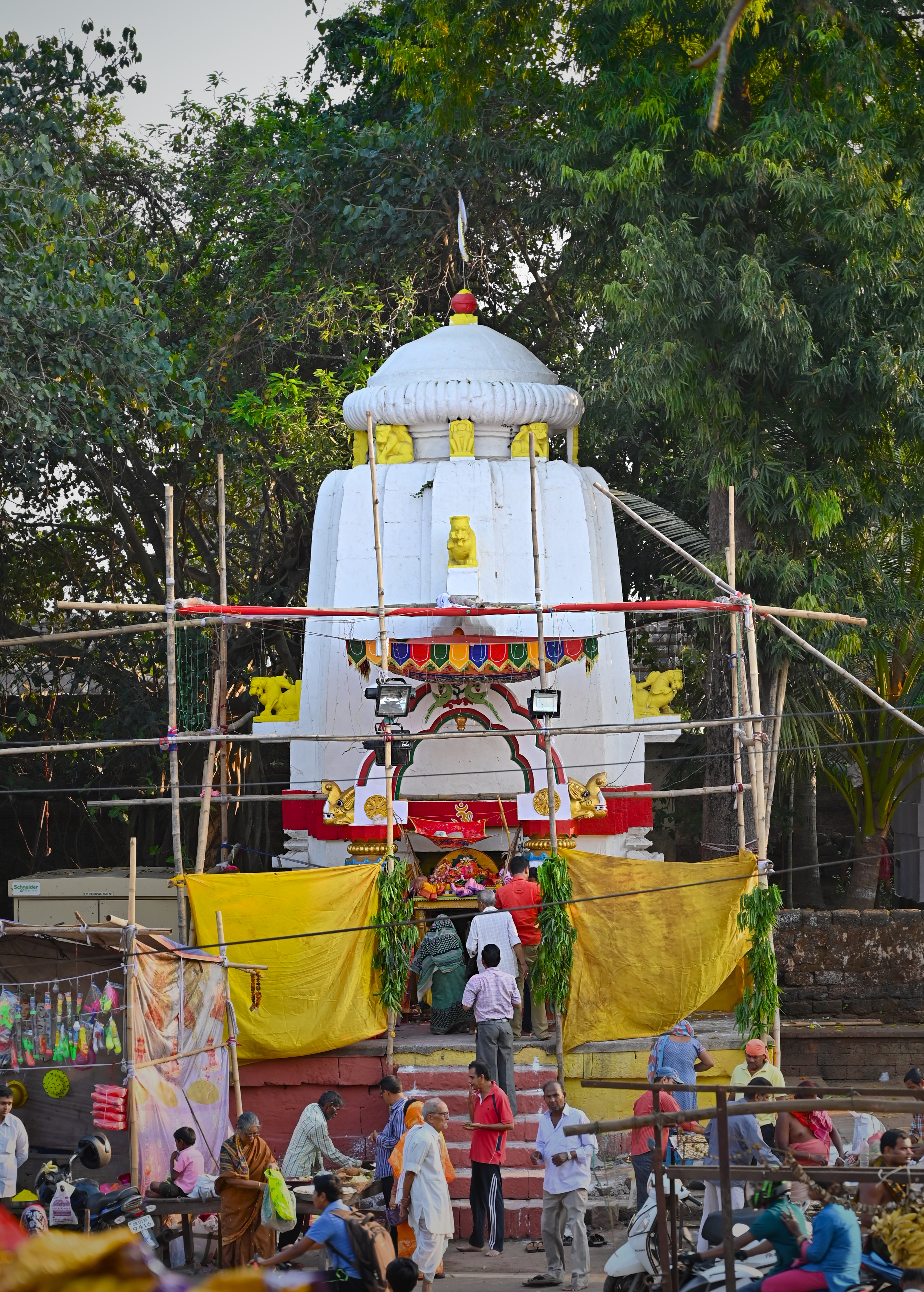 Dolagobinda Shiva Temple, Bhubaneswar. Image taken during ritual celebrations of Dola Jatra in March. ଓଡ଼ିଆ: ଭୁବନେଶ୍ୱର ସ୍ଥିତ (ଲିଙ୍ଗରାଜ ନିକଟସ୍ଥ) ଦୋଳଗୋବିନ୍ଦ ଶିବ ମନ୍ଦିର । ଚିତ୍ରଟି ଦୋଳପୂର୍ଣ୍ଣମୀ ଦିନ ଯାତ ବେଳର ।